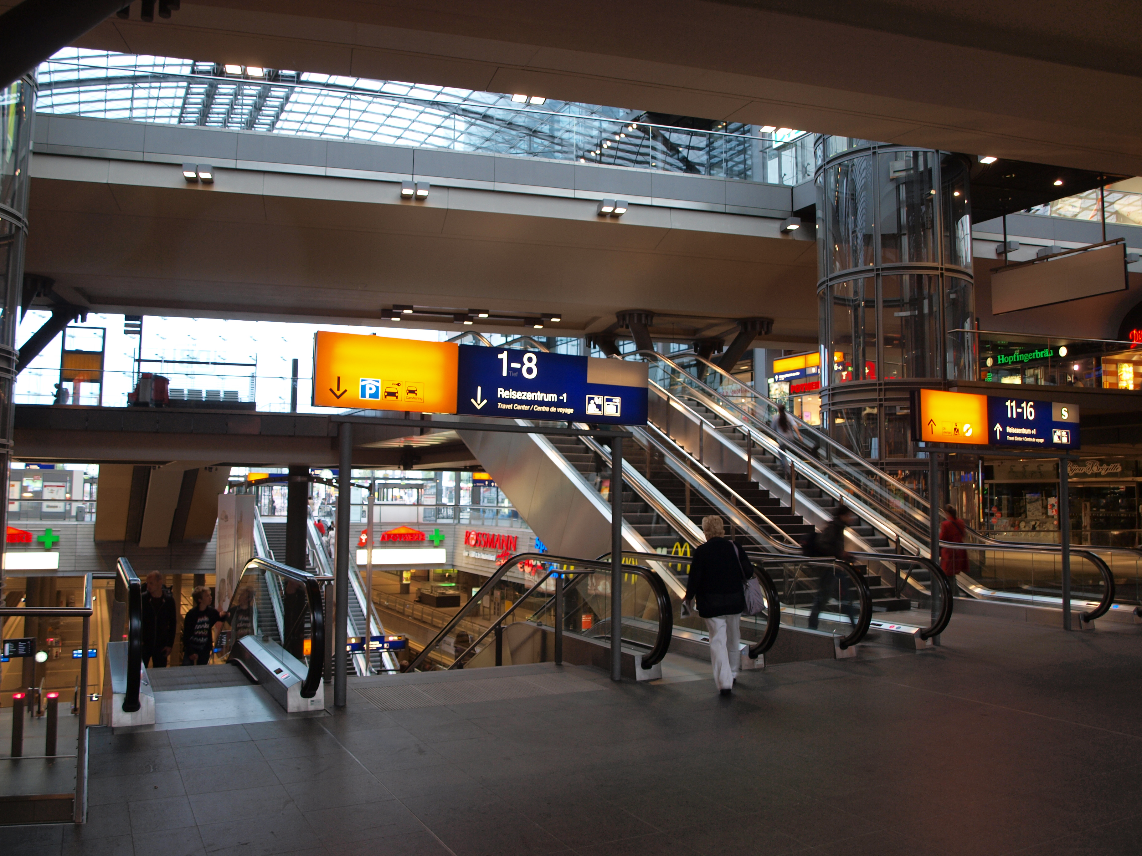 The middle level of the Berlin main railway station, between the two levels with train tracks.